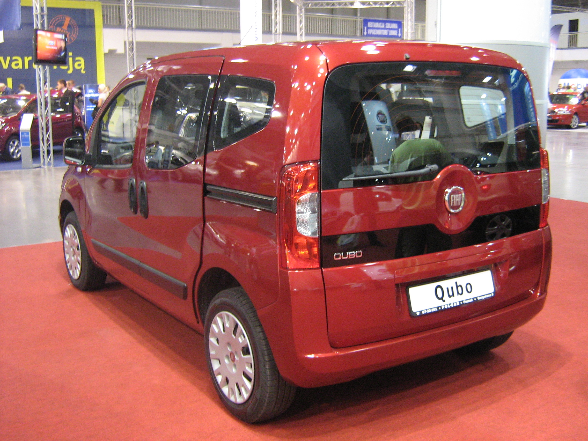 Fiat Qubo - PSM 2009 in Poznań, Poland.